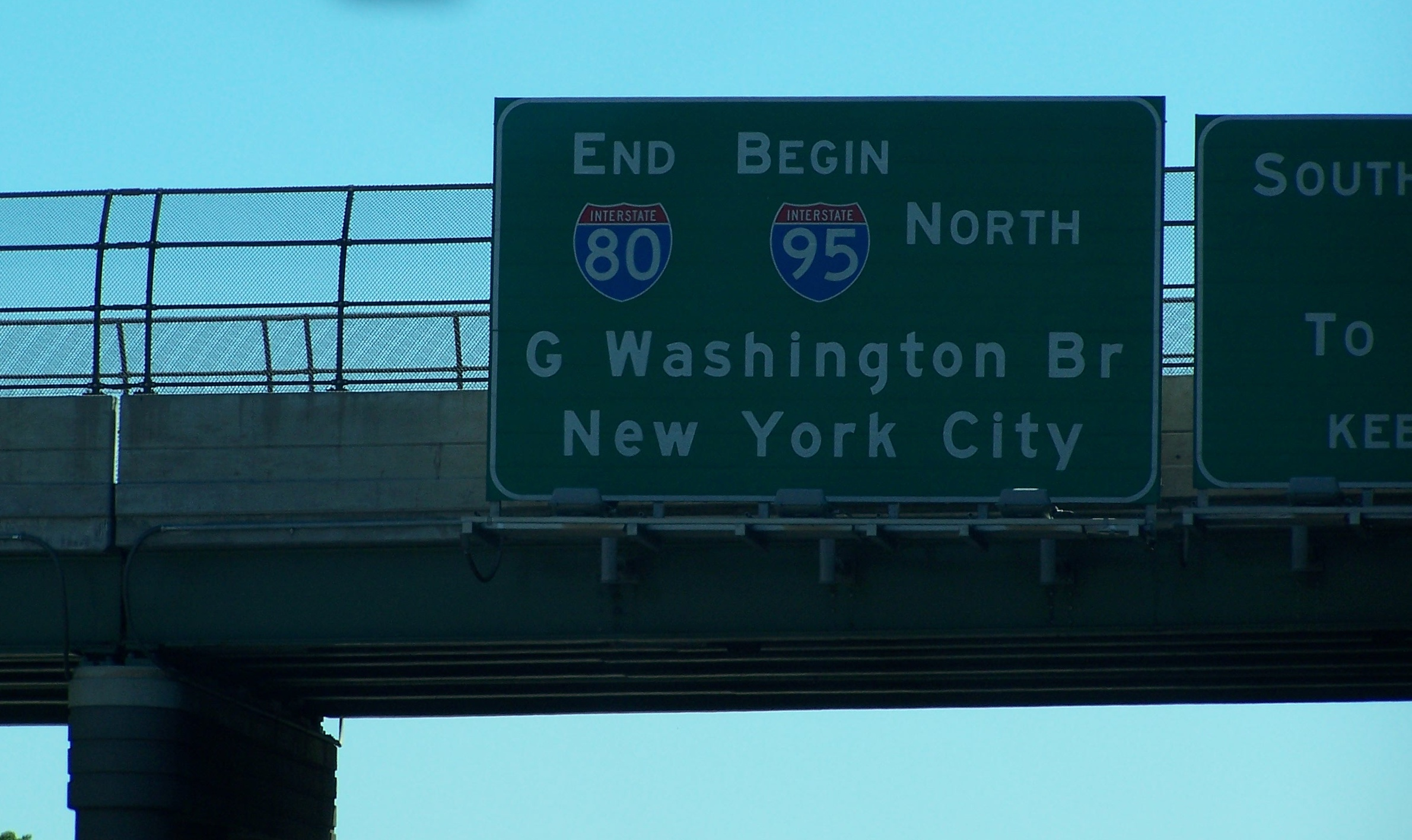 Overhead sign at the east end of I-80 near NYC.